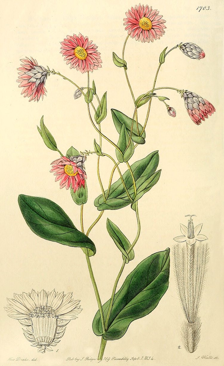 Illustration of Rhodanthe_manglesii (Helipterum manglesii (Lindl.) Benth.)